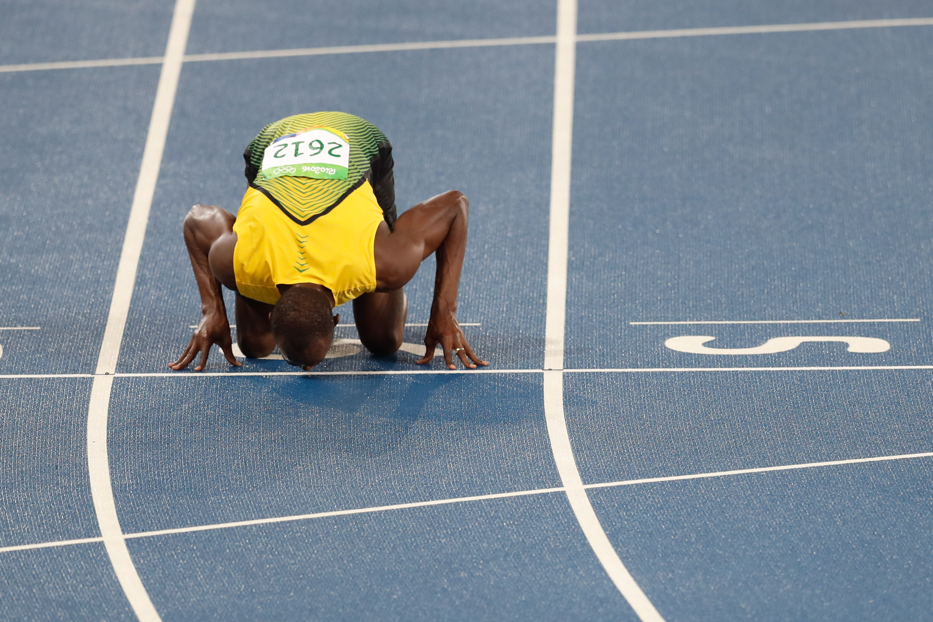 Rio de Janeiro - O Jamaicano Usain Bolt vence prova dos 200m rasos do atletismo e leva medalha de ouro nos Jogos Rio 2016, no Estádio Olímpico (Fernando Frazão/Agência Brasil)